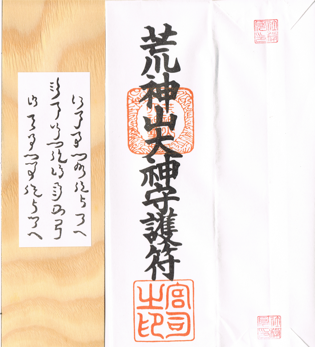 The Kamiyo Moji Exsample into the Ofuda.I buy the © 2009 荒神山神社(Kōjin-yama-jinja) at 2009.PNG version and converted by MOTOI Kenkichi.